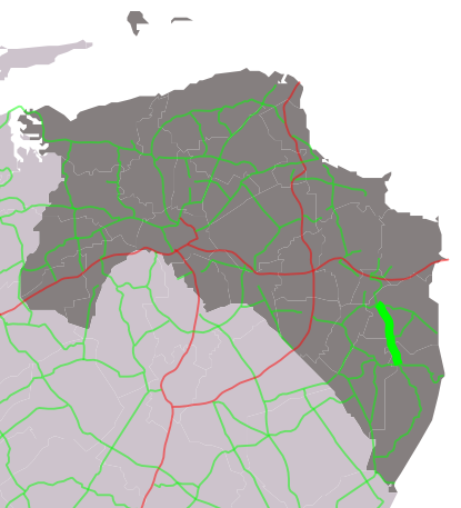 Map of Groningen with Dutch provincial road no. 368